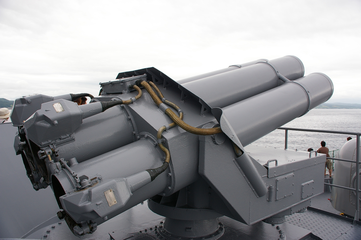 Bofors 375mm Rocket Launcher on the front deck of JS Yūbari (DE-227).